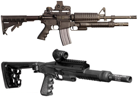 Multi-shot Accessory Underbarrel Launcher, or MAUL, is a modular 12-gauge shotgun.